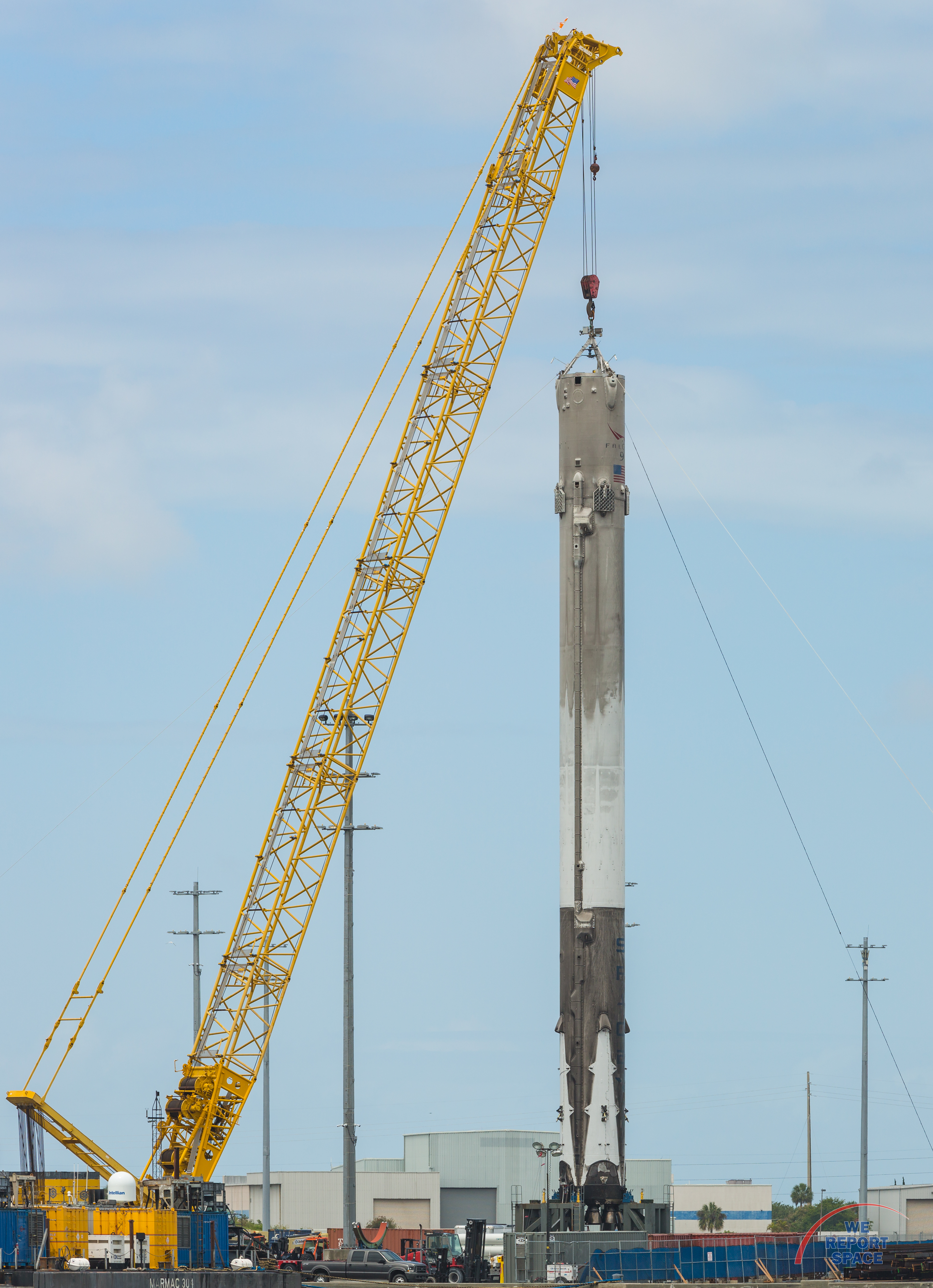 This is the first stage of the #SpaceX #CRS8 #Falcon9 rocket that was successfully landed on the drone ship "Of Course I Still Love You", seen at 2:20pm on Saturday April 16, 2016. The landing legs have all been removed in preparation for moving the first stage to one of the SpaceX facilities at CCAFS for processing and analysis.